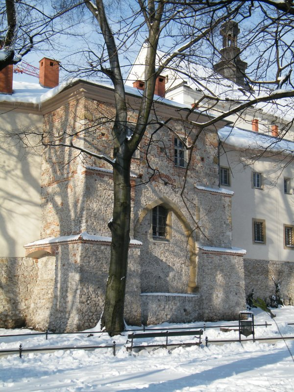 Remains of Brama Rzeźnicza in Krakow, Poland